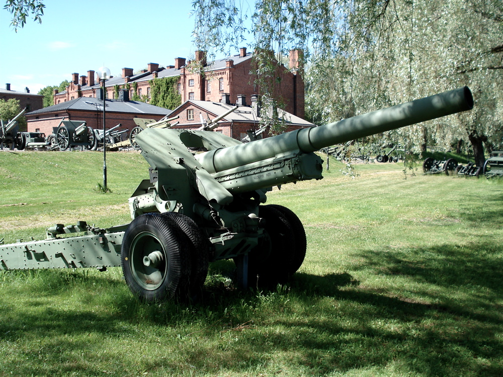 Soviet 152mm mm M-10 Mark 1938 howitzer, displayed in Hämeenlinna Artillery Museum. Photo taken on June 18, 2006. Source: Photo by me, User:Balcer.